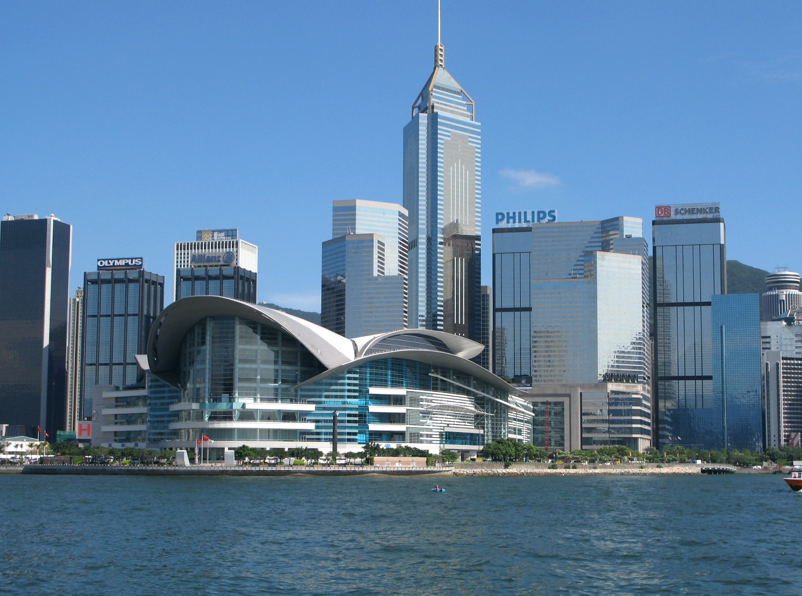 Hong Kong Convention and Exhibition Centre